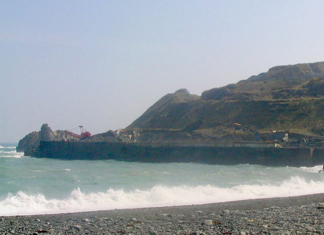 Cliffs and Quarry near Porthoustock. SW8121 is hard to photograph from land since the small amount of land within it is largely taken up by quarry workings inaccessible to the public. This photo was taken from Porthoustock beach.